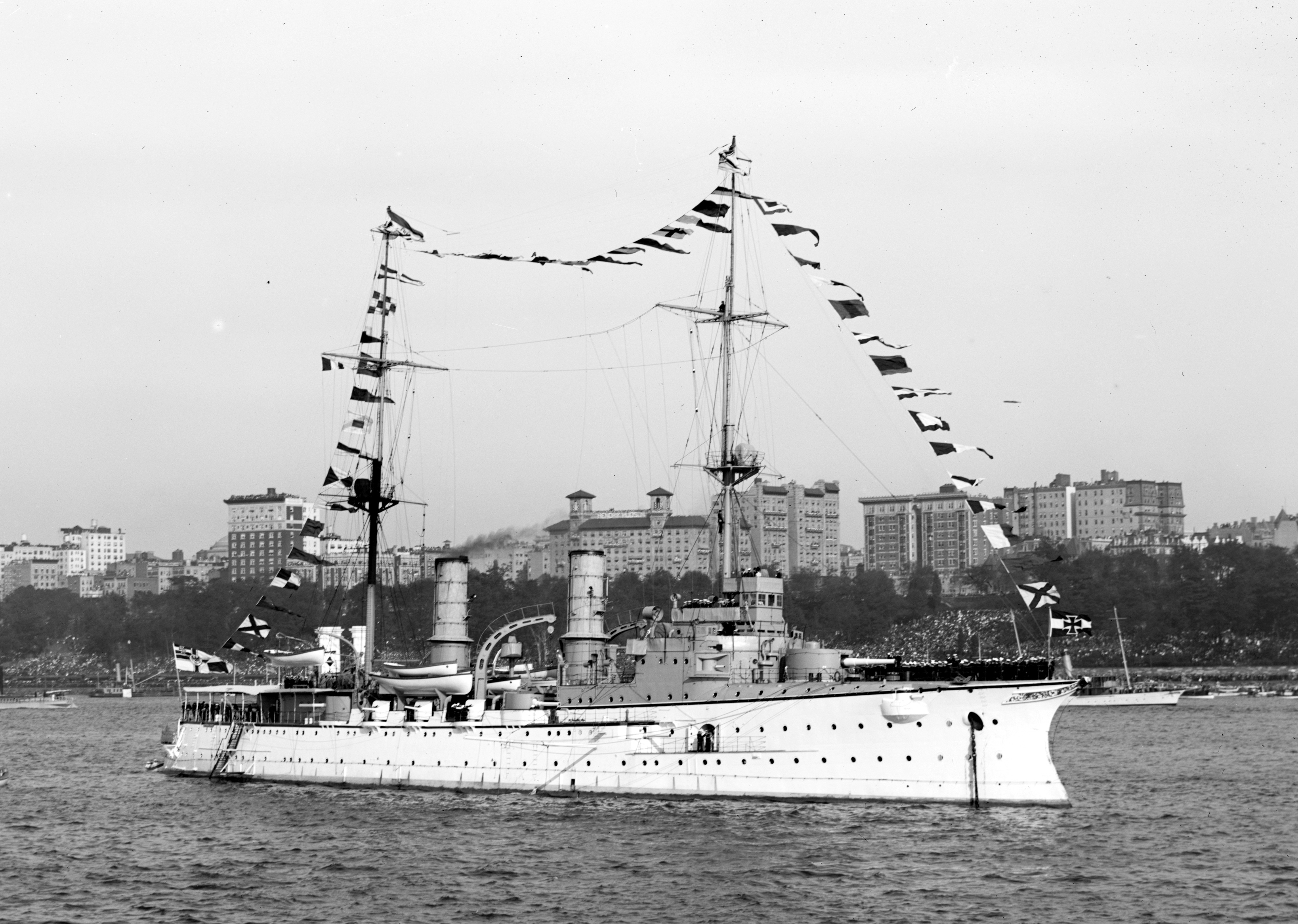 The German protected cruiser SMS Victoria Louise anchored on the Hudson River, New York City, during the Hudson-Fulton Celebration.